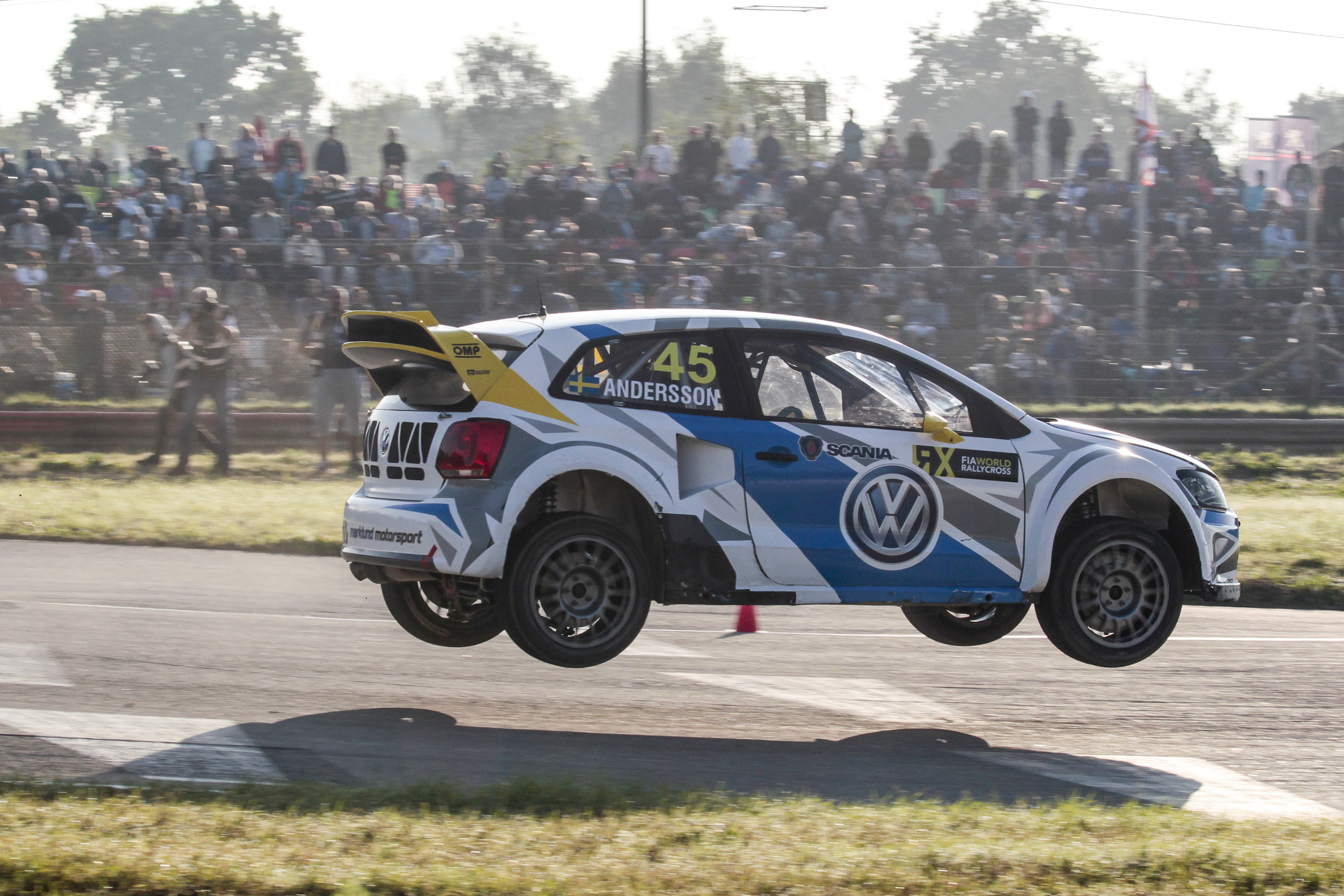 P-G Andersson in his VW Polo R Supercar at Round 9 of the 2015 FIA World Rallycross Championship at Circuit de Lohéac, France.